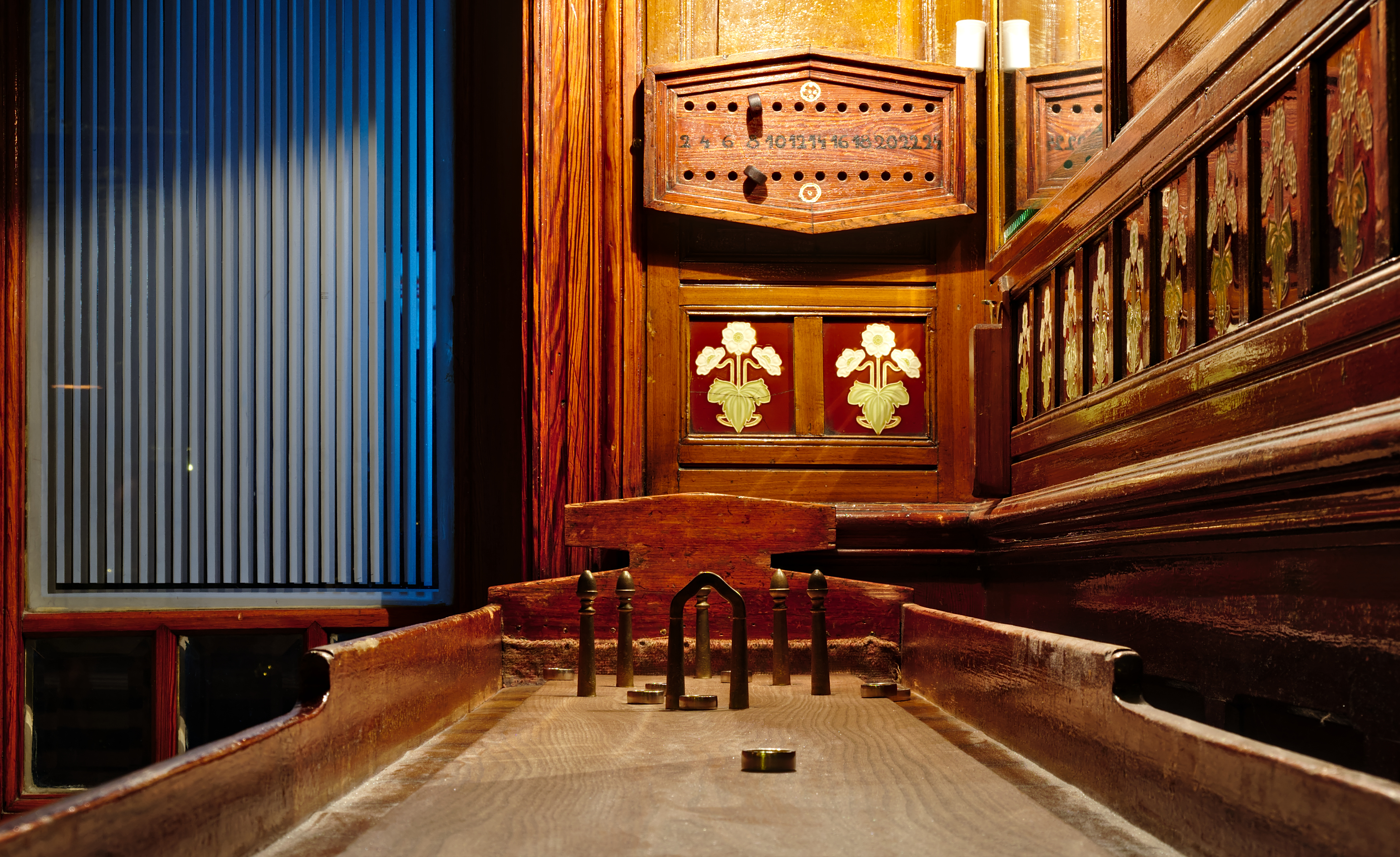 Jeu de fer, traditional game of Tournai This photo of movable heritage has been taken in the Walloon Region